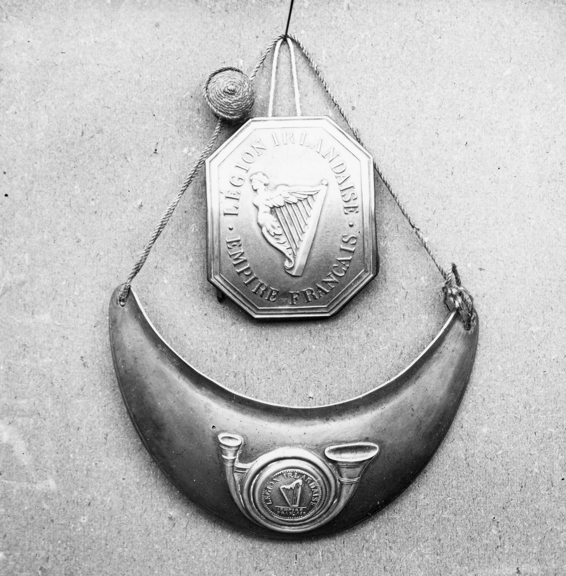 Mr. Mason has come up with some gems in his collection and I think that this is one of those! The regalia of a soldier in the Irish Brigade(?) in one of the French Empires must be as rare now as hens teeth. It would be interesting if we could find out the history of the pieces, what era they came from and perhaps which regiment? Remember "When on Ramillies bloody field the baffled French were forced to yield, the victor Saxon backward reeled, before the charge of Clare's Dragoons"? WIth thanks to today's brilliant contributions, we have apparent confirmation that these pieces were associated with Irish Legion of 1803-1815, and are now held by the National Museum of Ireland. The cross-belt plate is believed to have been worn by a Captain Patrick McCann, who died following the Battle of Flushing in 1809.... Photographer: Thomas H. Mason Collection: Mason Photographic Collection Date: Catalogue range c.1890-1910 NLI Ref: M46/17 You can also view this image, and many thousands of others, on the NLI’s catalogue at